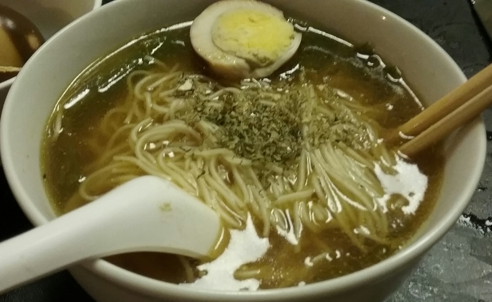 A bowl of Chinese Spring Noodle Soup. The recipe is from [1]